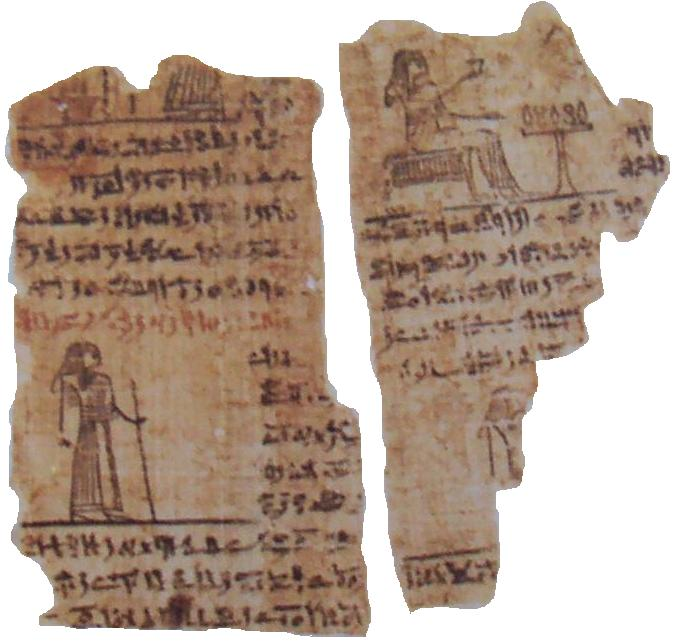 Fragment of the Joseph Smith Papyri, designated Joseph Smith Papyrus VII. This fragment is thought to be part of the untranslated Book of Joseph, and was found among the papyrus fragments that are considered the source of the Book of Abraham.